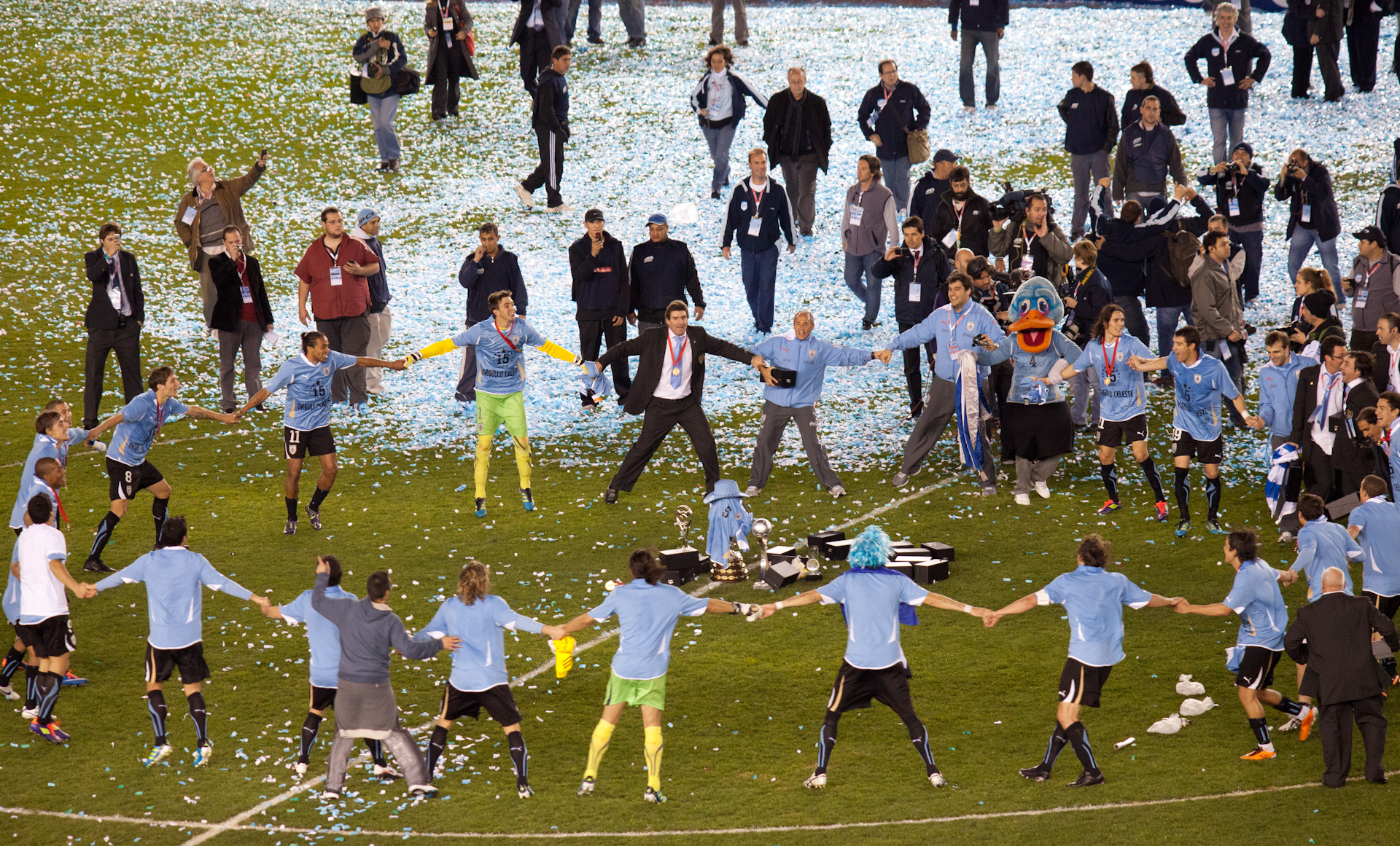 Uruguay players celebrating after winning the 2011 Copa America final against Paraguay.